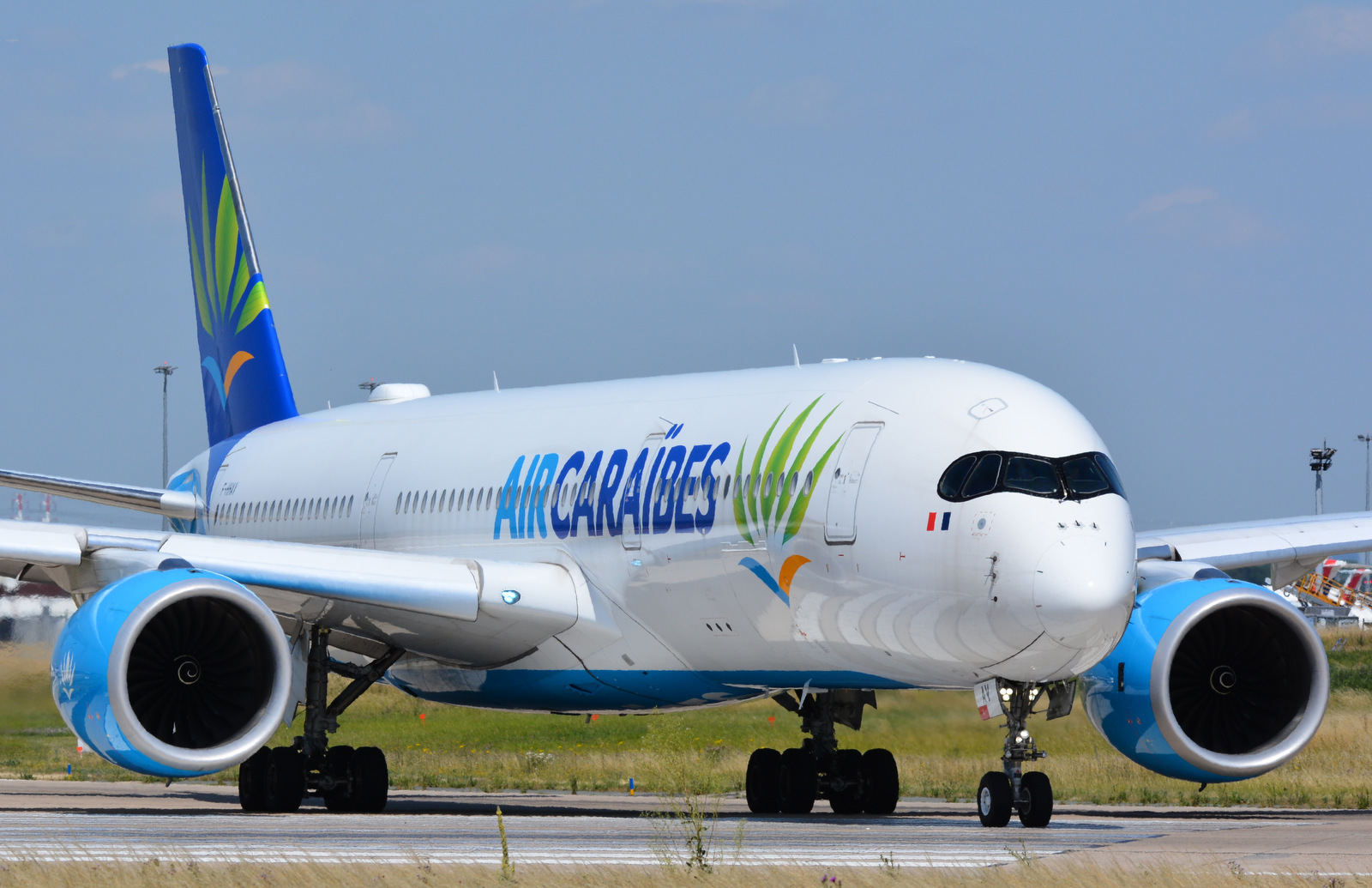 Paris-Orly Airport